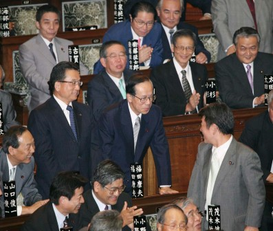 Yasuo Fukuda, Member of the House of Representatives, was designated as Prime Minister by the House of Representatives at the National Diet Building in Chiyoda Ward, Tōkyō Metropolis on September 25, 2007. Fukuda formed the Cabinet on September 26, 2007.